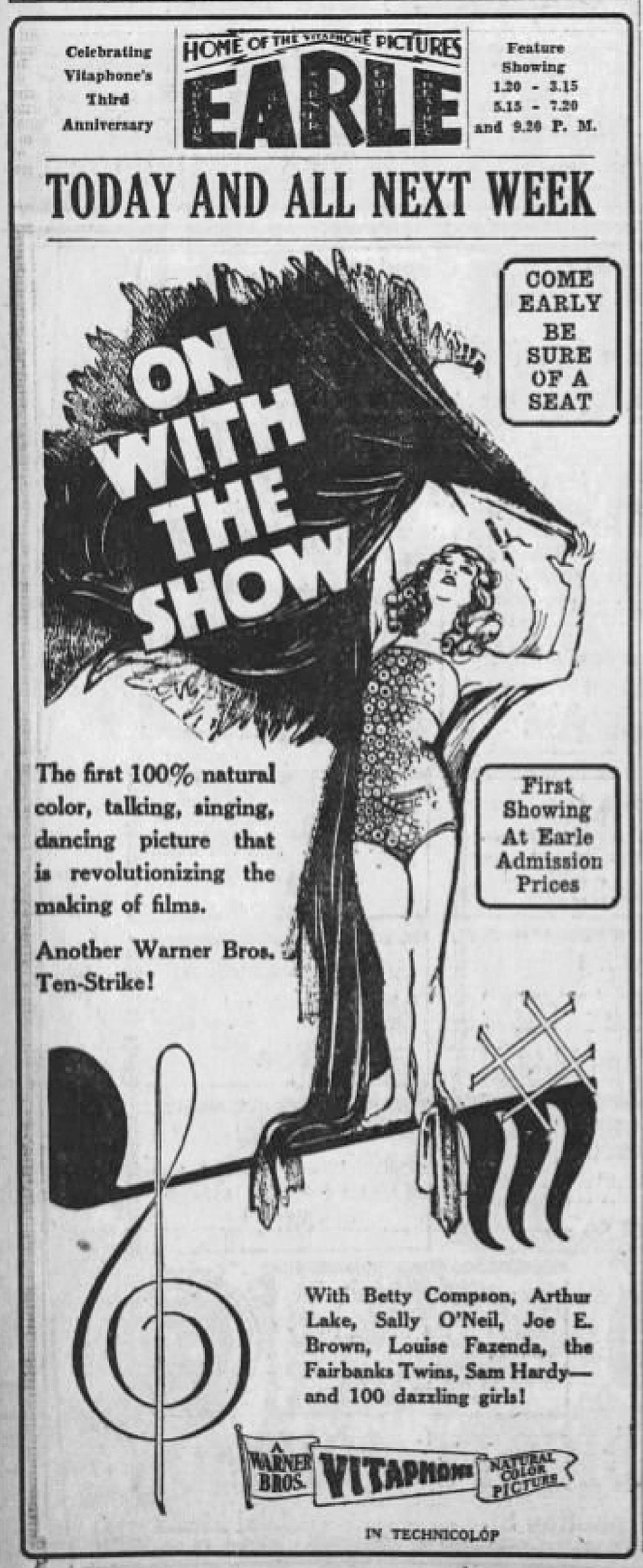 Earle Theater advertisement for the American film On with the Show! (1929) - 10 Aug MC - Allentown PA. This film was the first technicolor (2 strip) sound feature film to be presented in Allentown.